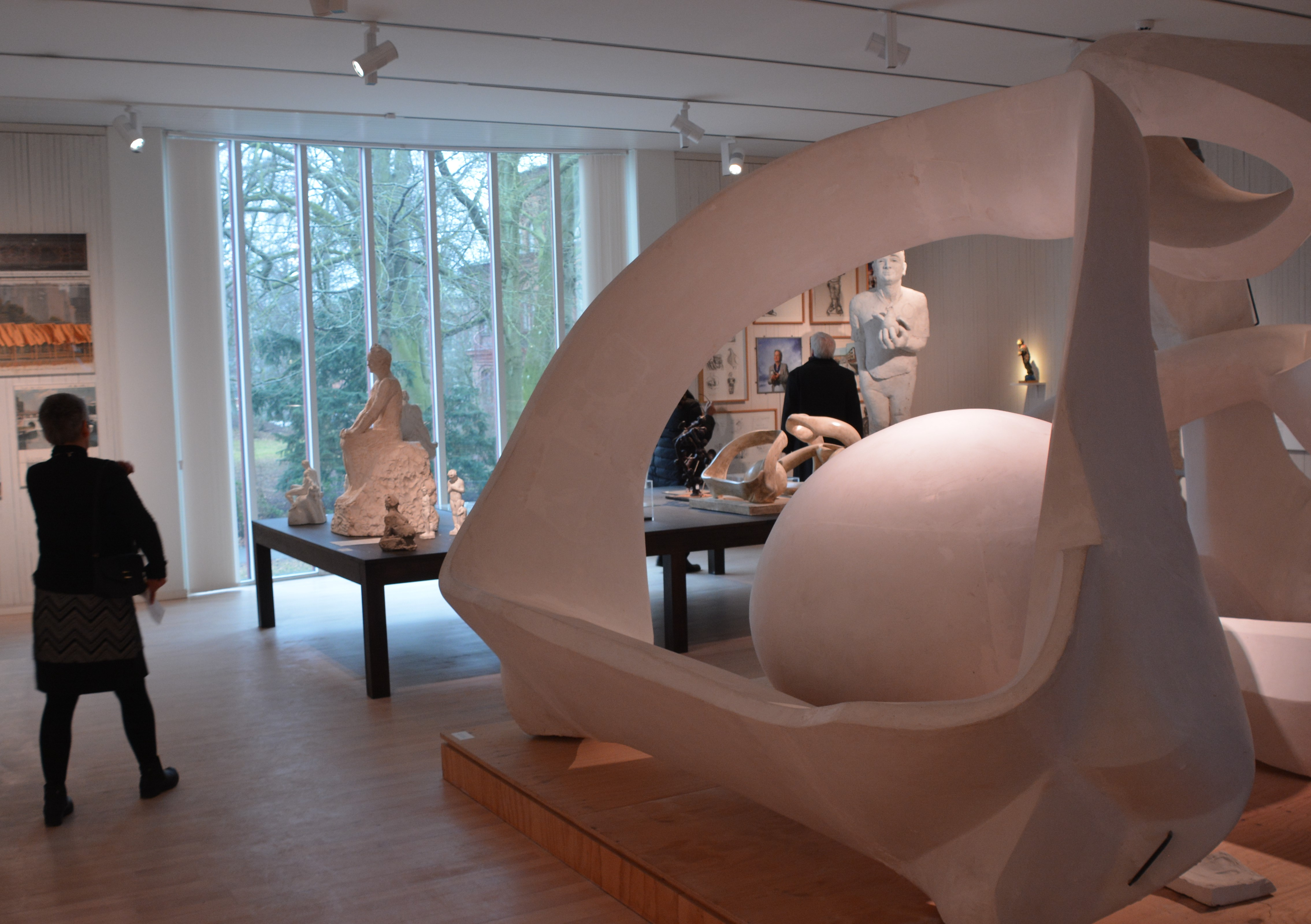 Skissernas museum. Salen för konstverkens födelse